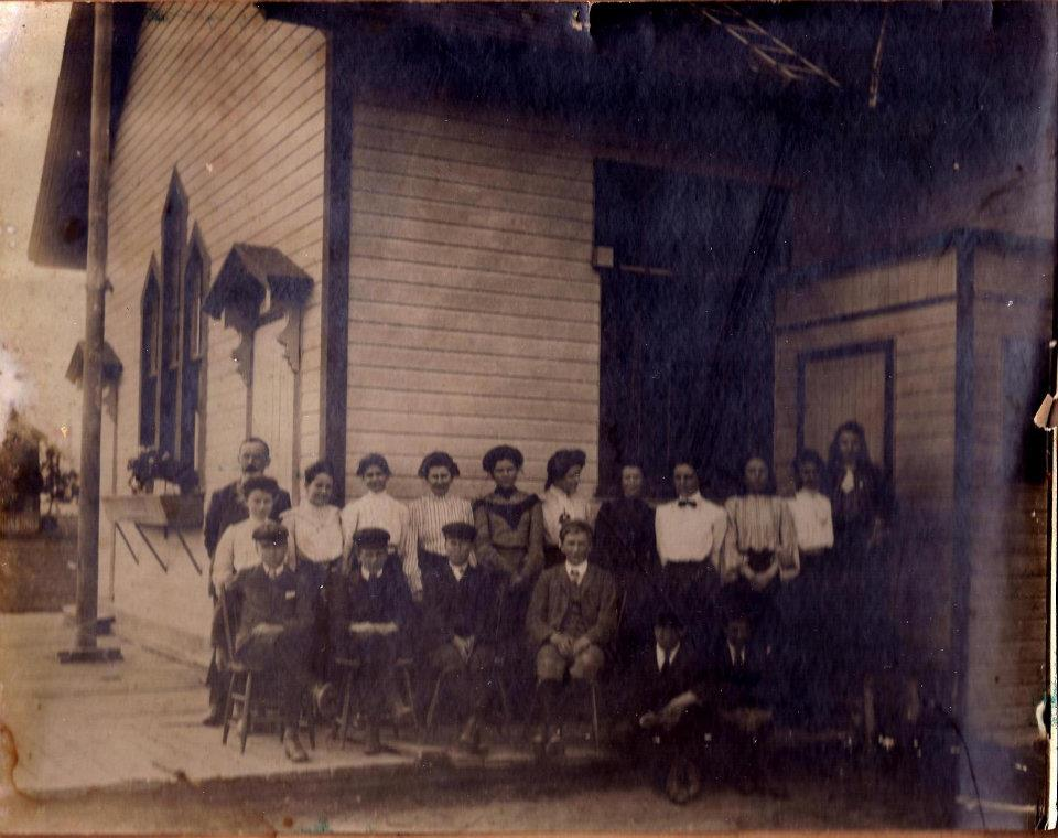 1902 high school graduating class